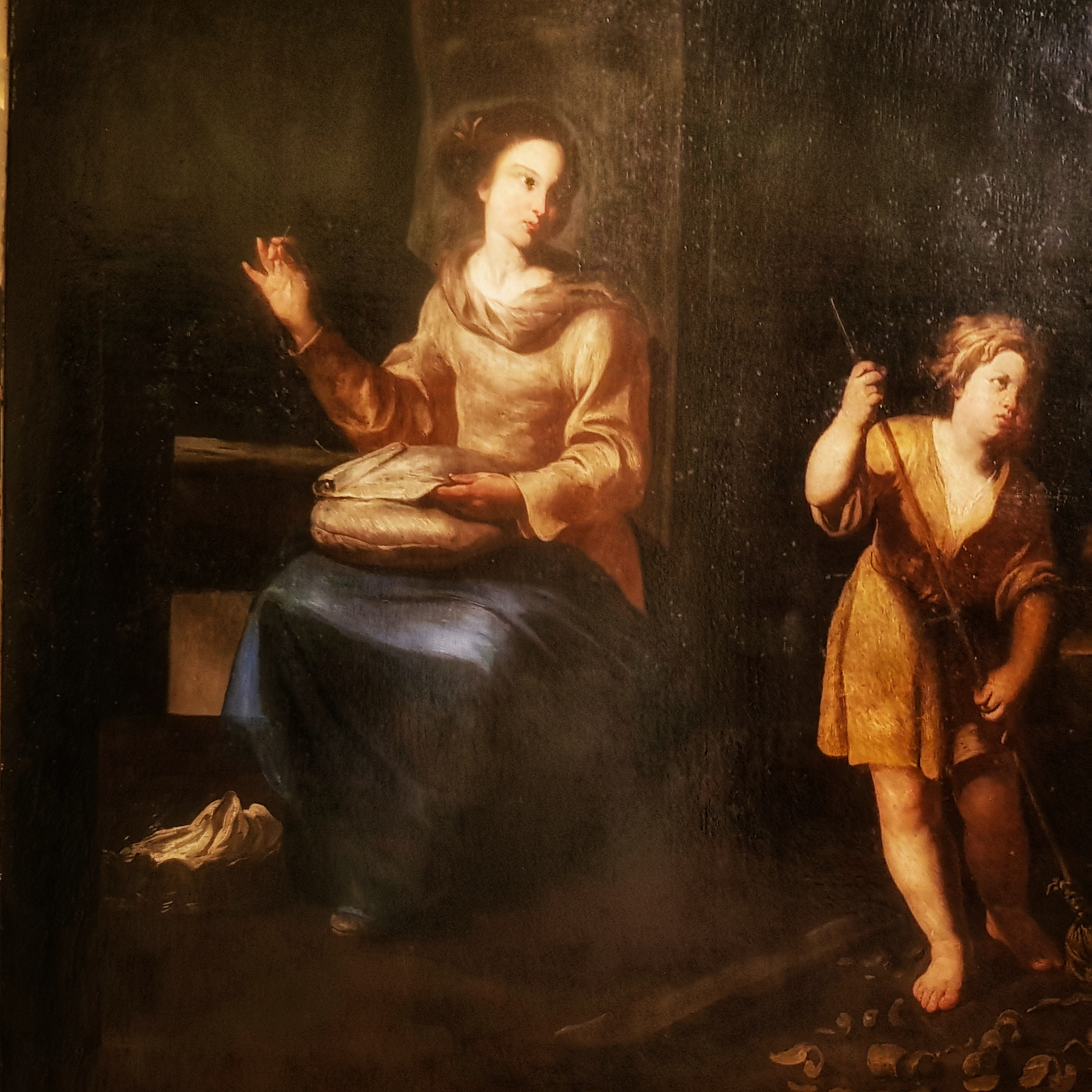 A detail from the painting "Jesus in st Joseph workshop" by Diana de Rosa (1602–1643 Naples, Italy), also known as Annella de Rosa or Annella di Massimo. displayed at the museum of Santa Maria Donnaregina Nuova